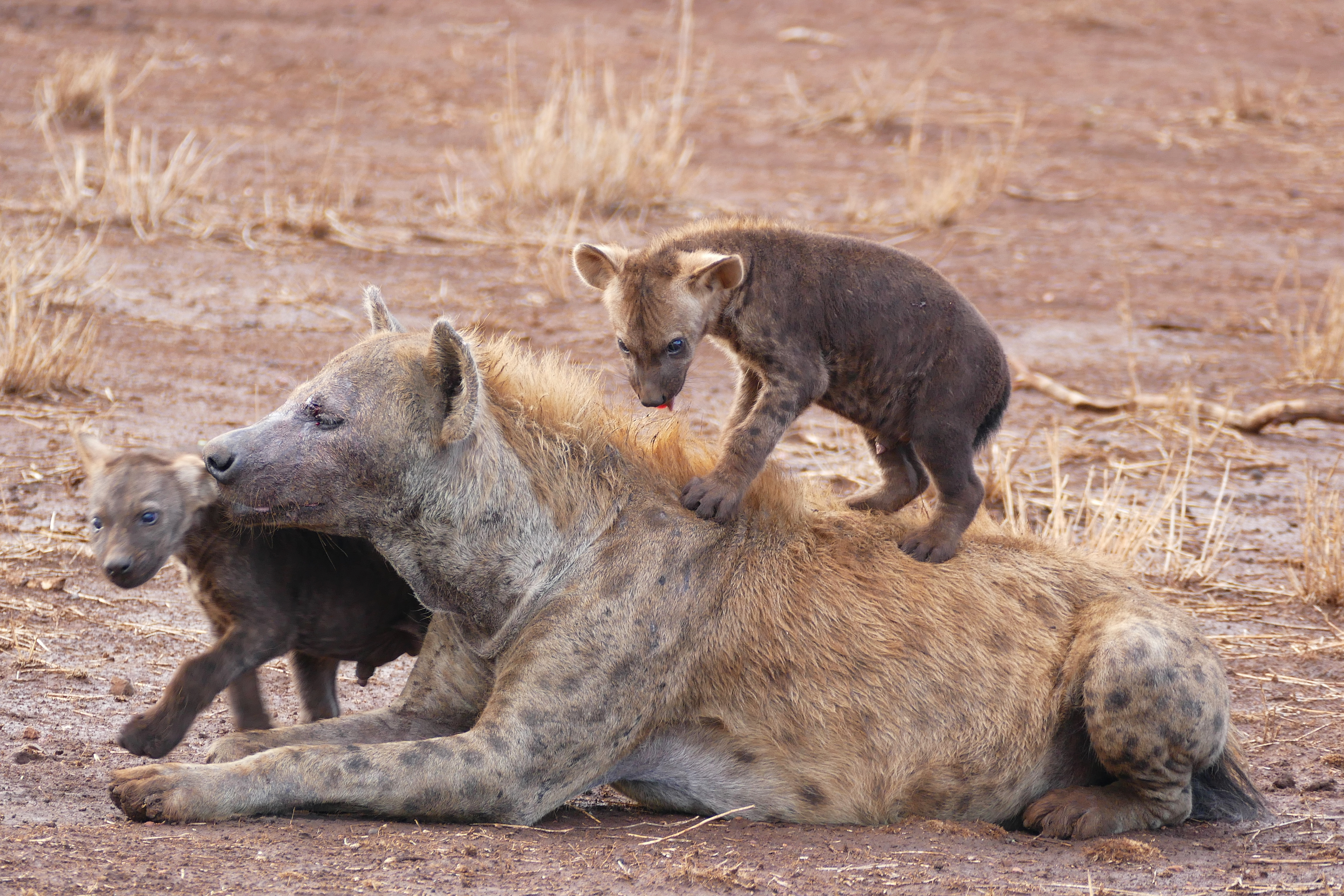 H6 Road south east of Satara, Kruger NP, Mpumalanga, SOUTH AFRICA